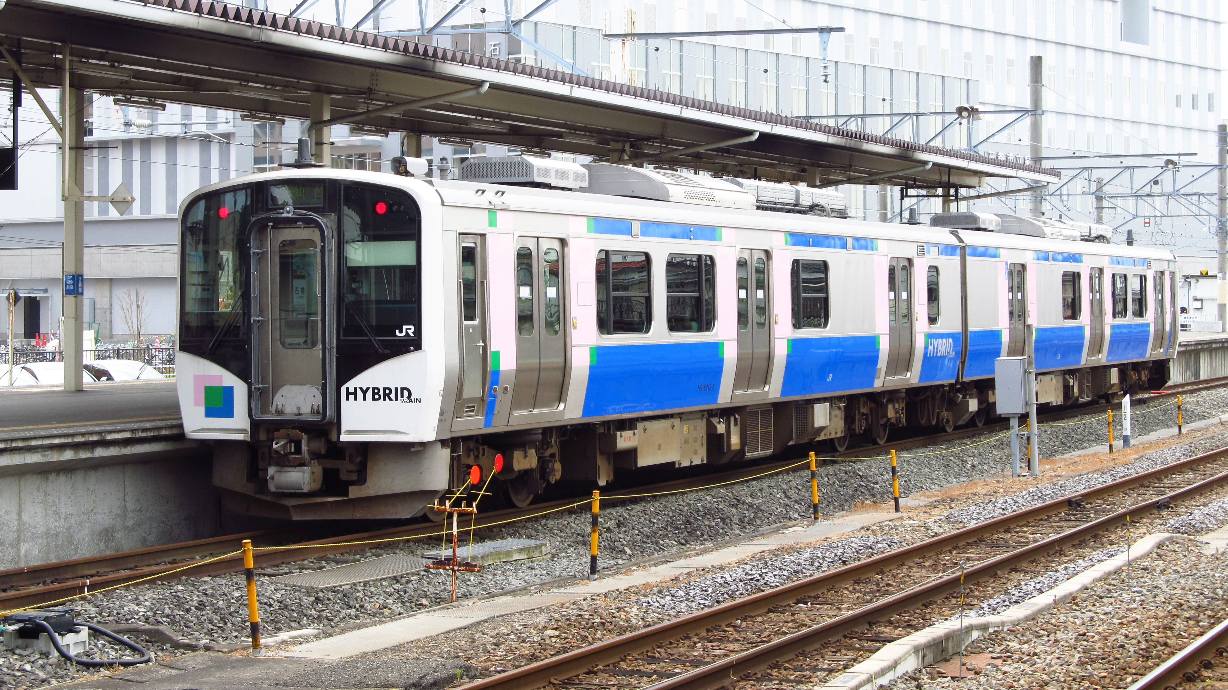 HB-E210 series